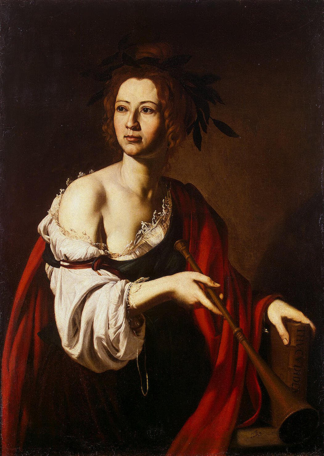 H. Ribera. Allegory of History. 17th century. Hermitage Museum.